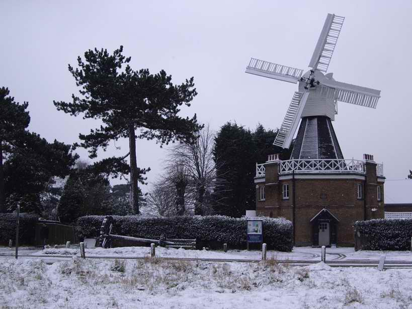 The windmill on Wimbledon Common. Picture taken February 2005 by Adrian Robson.